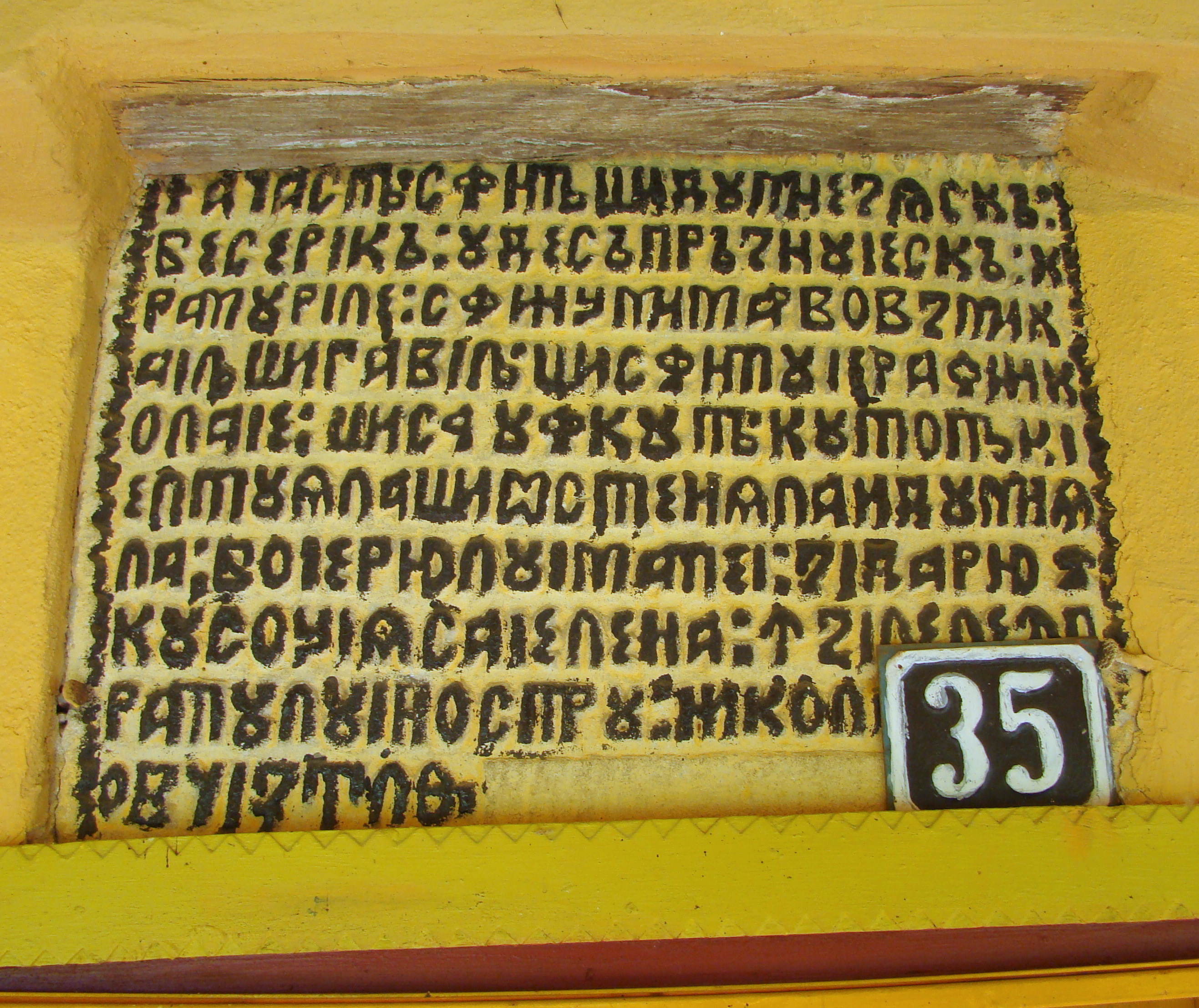 Wooden church in Becheni, Gorj county, Romania